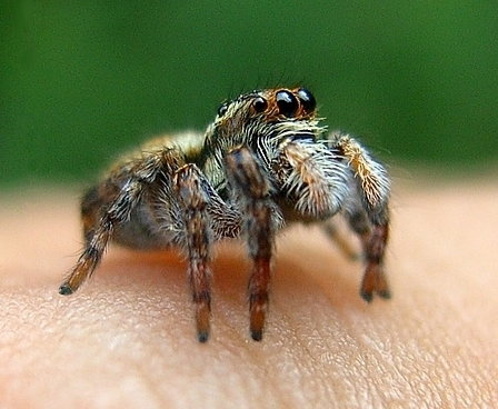 female Evarcha albaria from Japan.